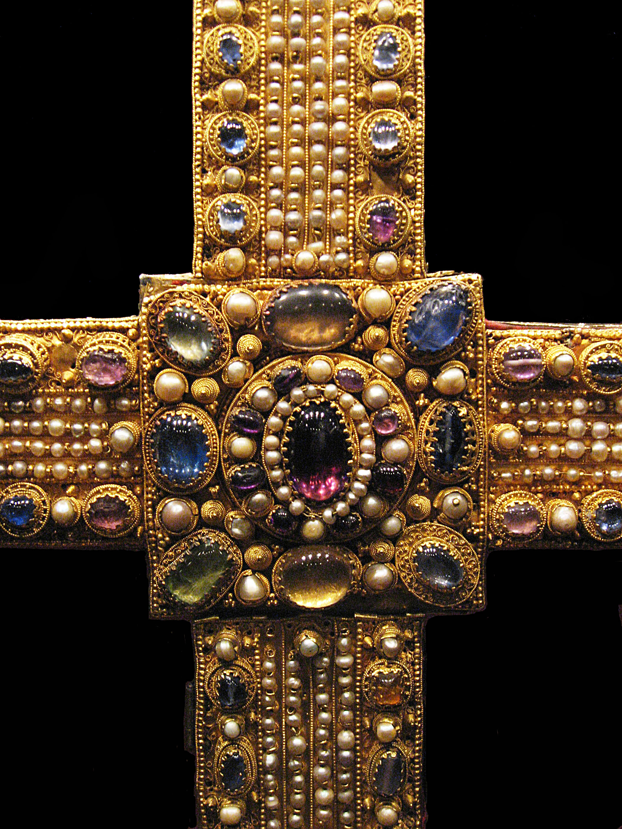 Imperial Cross Western Germany c. 1024/25 Oak base, recesses for relics, covered with red fabric and plated with gold foil Front: precious stones and pearls in raised mountings which could be lifted as plates Back and side walls: niello, iron pin H 77.5 cm, W 70.8 cm Base of the cross: Prague, 1352 Silver-gilt, enamel H 17.3 cm Overall height of the standing cross SK Inv. No. XIII 21